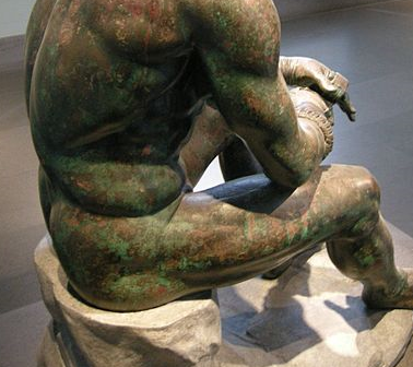 A photo showing a section of the back and side of the Thermae Boxer statue. This is an edited/cropped version of a photo showing the full statue, which was originally uploaded by user Folegandras, under the same license. Original file name 'File:Pugile, I secolo ac., 08.JPG'